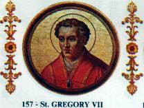 Portrait of Pope Gregory VII on the Basilica of Saint Paul Outside the Walls, Rome